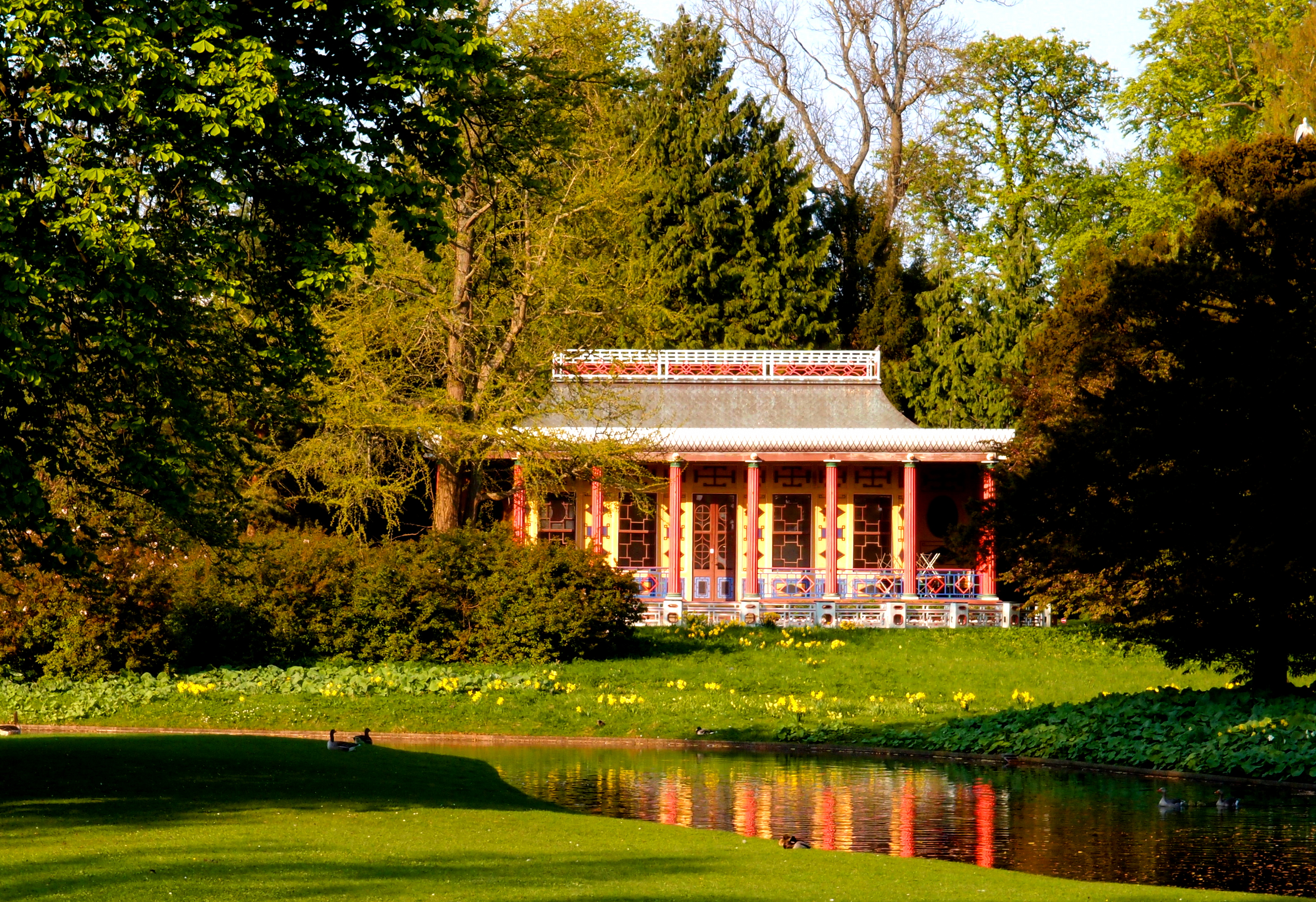 The Chinese tea-house from 1799-1800 by Andreas Kirkerup in Frederiksberg Park in Copenhagen in Denmark, viewed from the South-West.